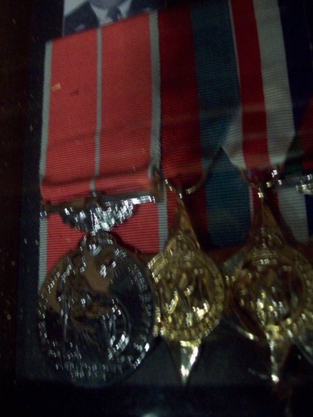 The British Empire Medal (Military Division), mounted with other medals, on display at the Royal Canadian Regiment Museum in London Ontario. This image is released under copyleft.